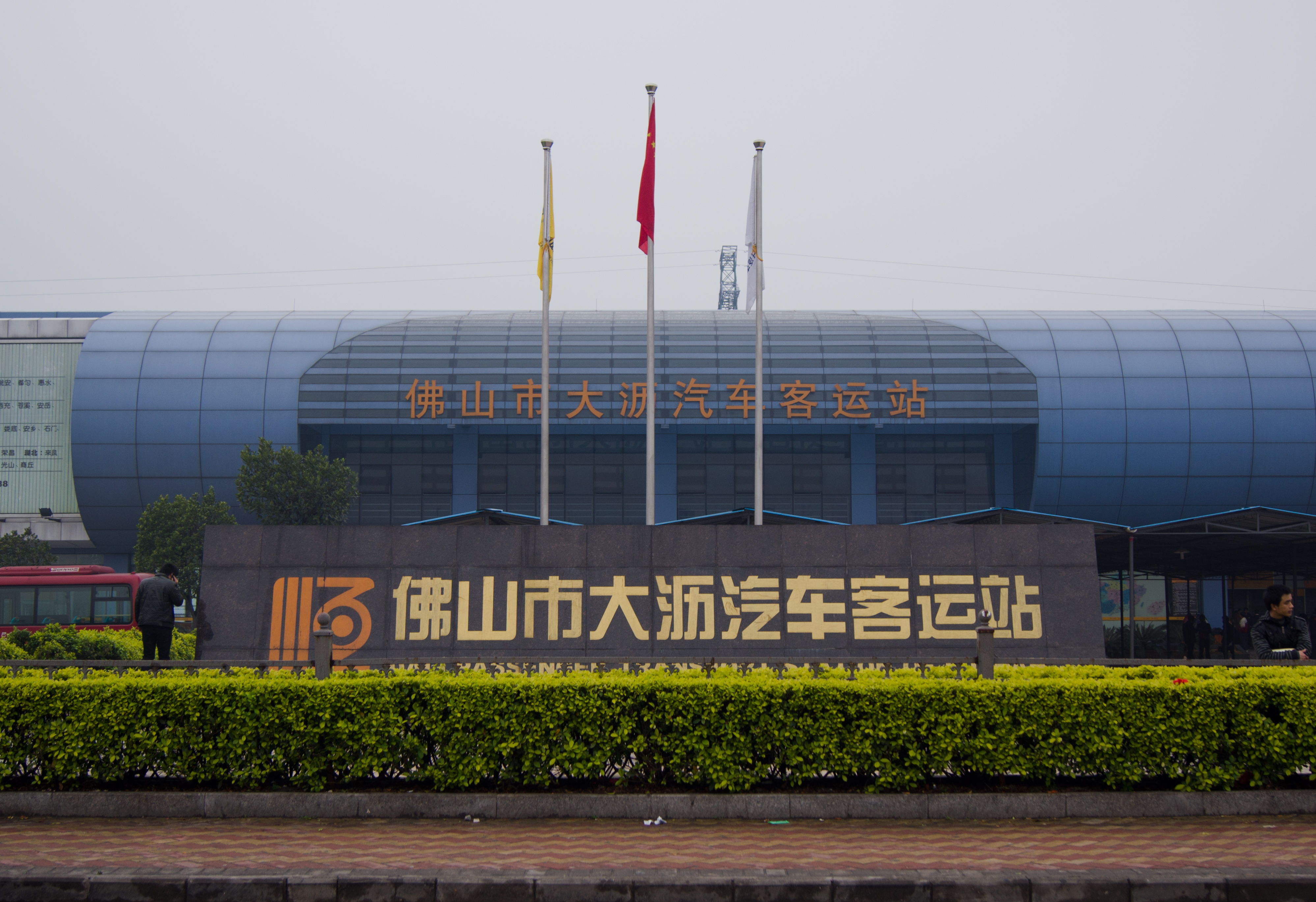 Dali Bus Terminal of Foshan